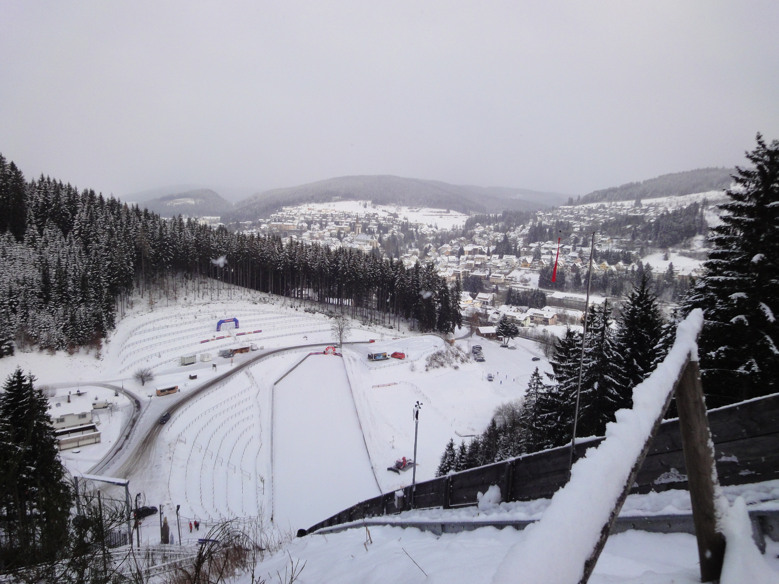 View from Hochfirstschanze to Neustadt: the photo was taken before Saturday's competition of 2011's Continental Cup event at the Hochfirstschanze in Titisee-Neustadt